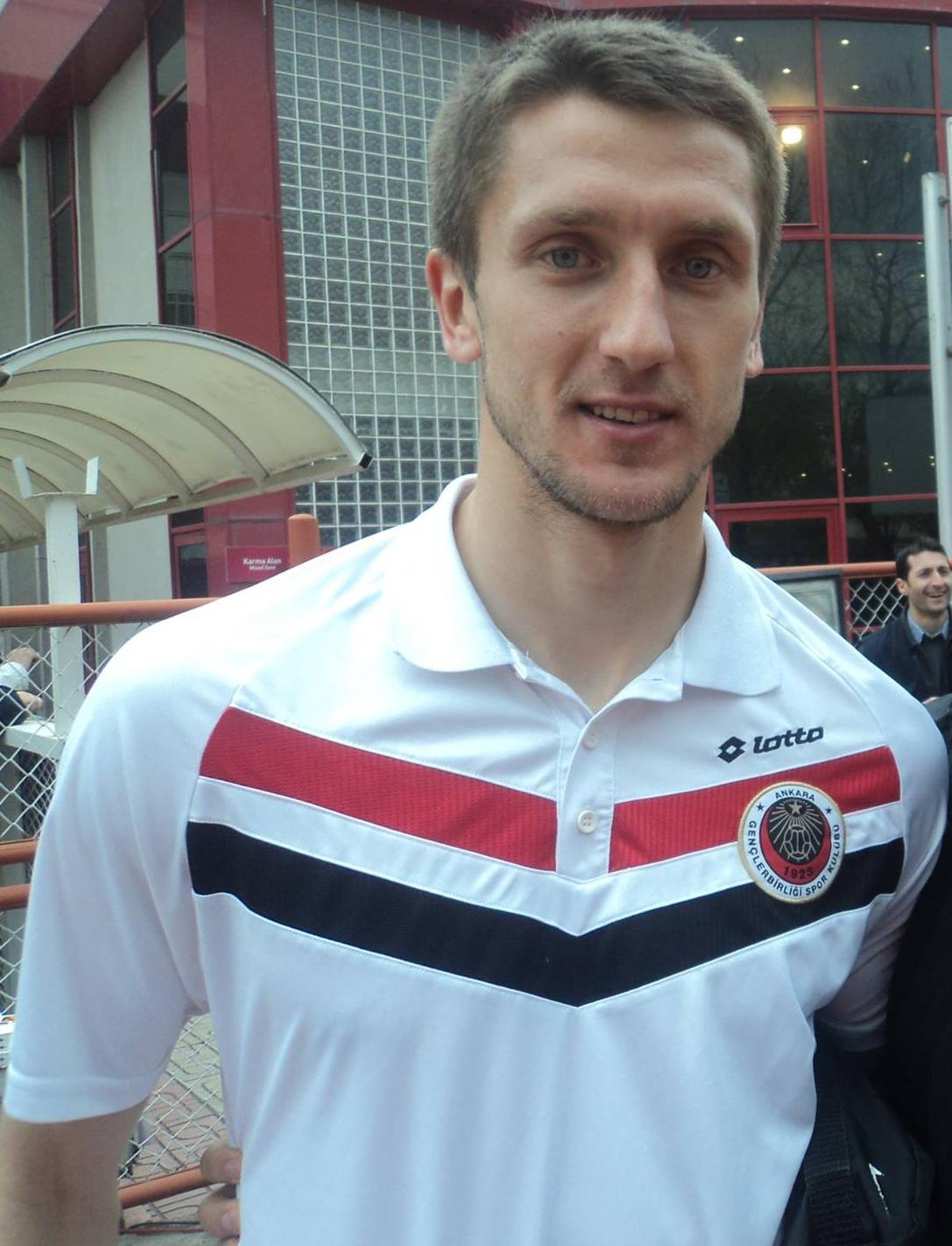 Artem Radkov, Belarusian footballer.